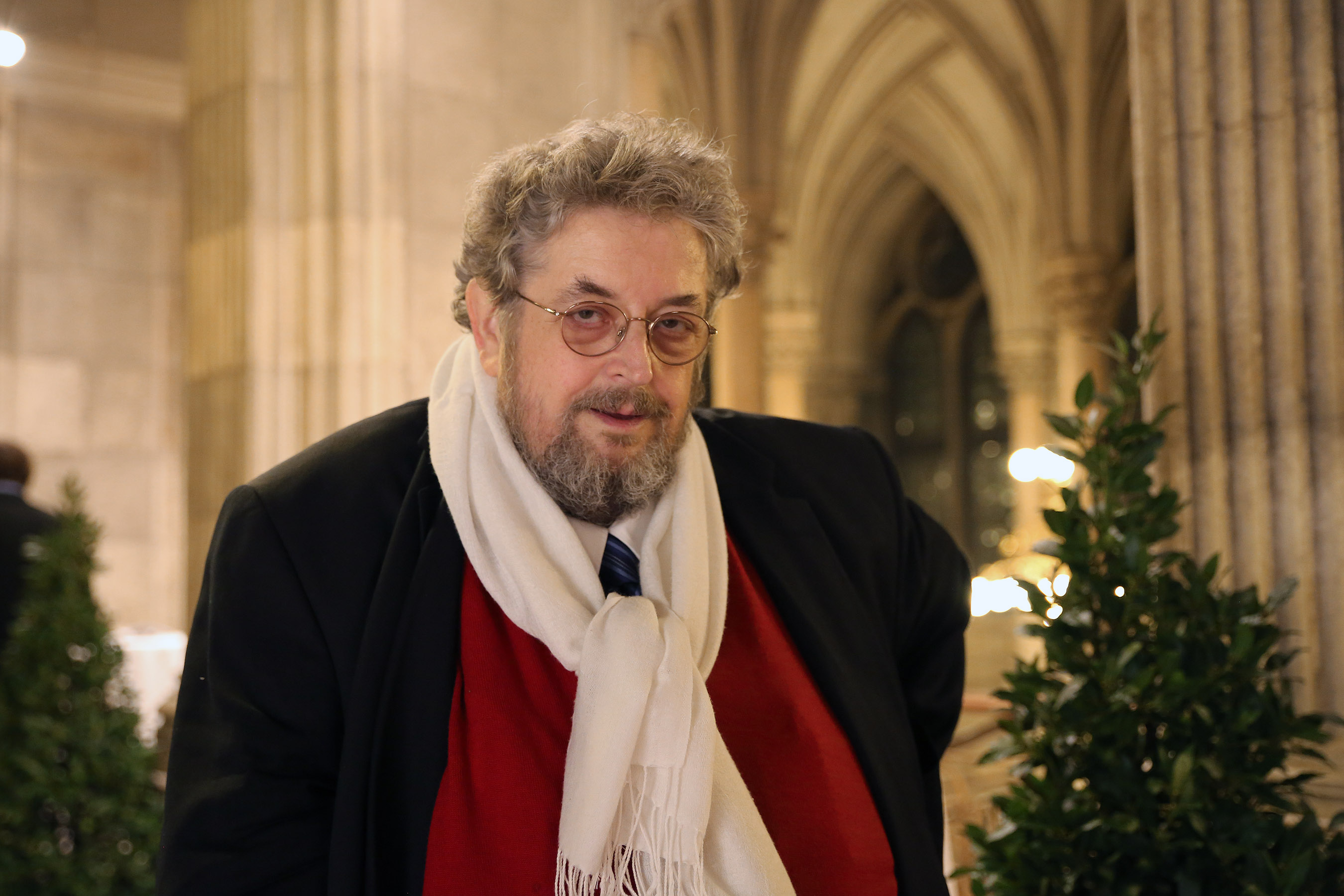 Peter Kern at the Austrian Film Awards 2013 (Vienna).